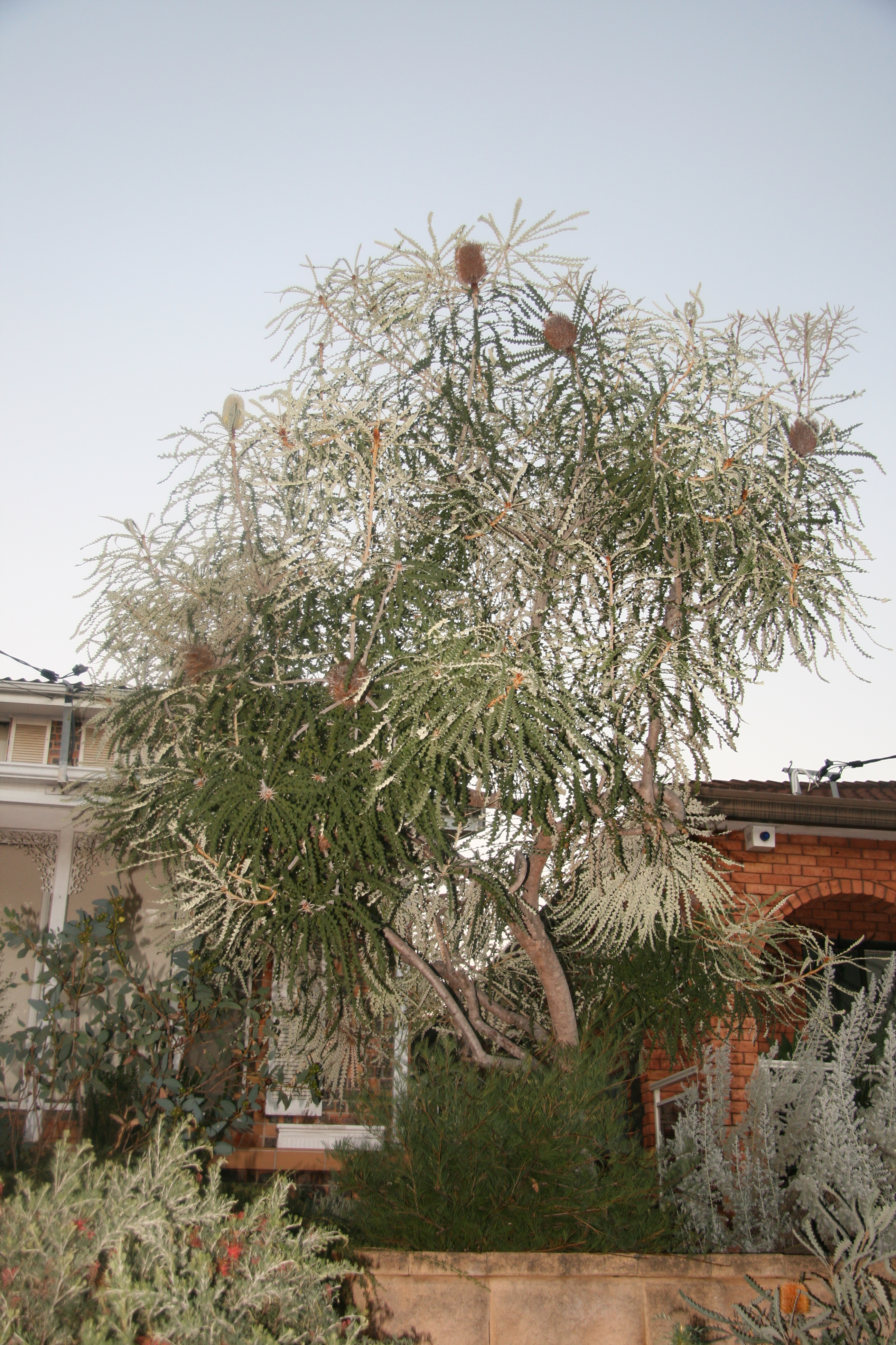 Banksia speciosa cult Sydney (grafted onto integrifolia) - habit